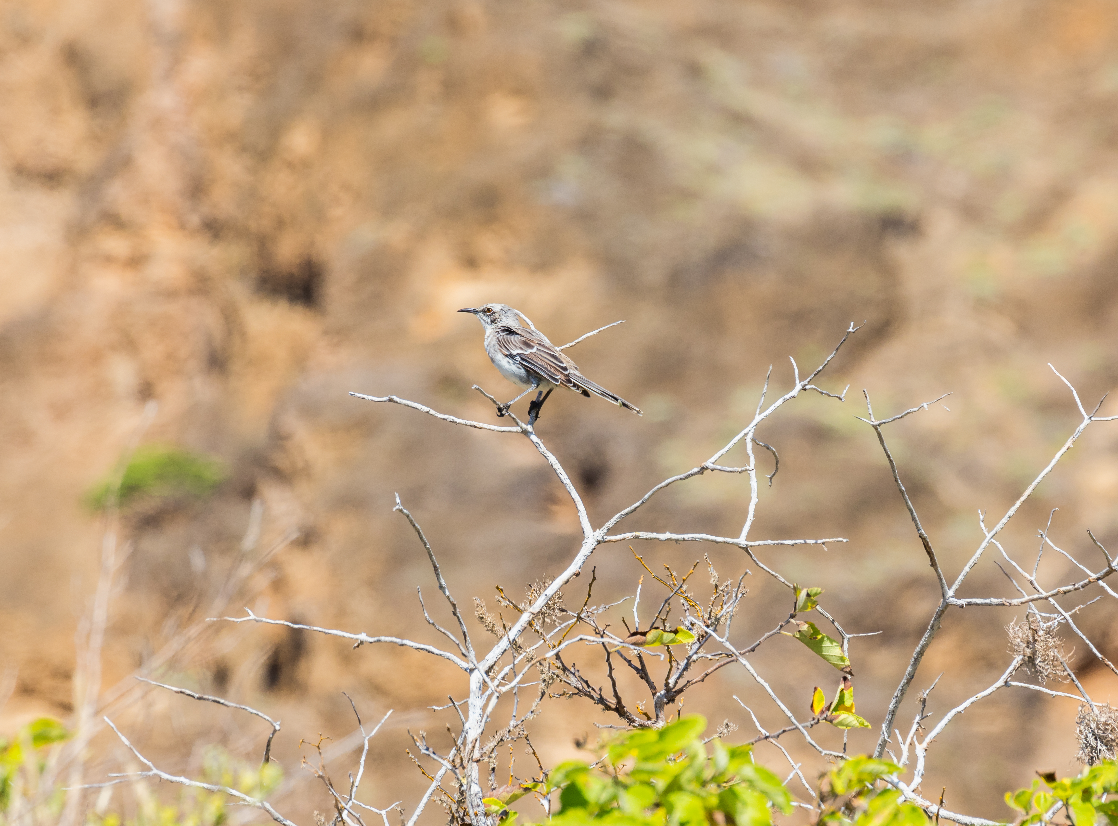 San Cristóbal mockingbird (Mimus melanotis), Punta Pitt, San Cristobal island, Galapagos islands, Ecuador